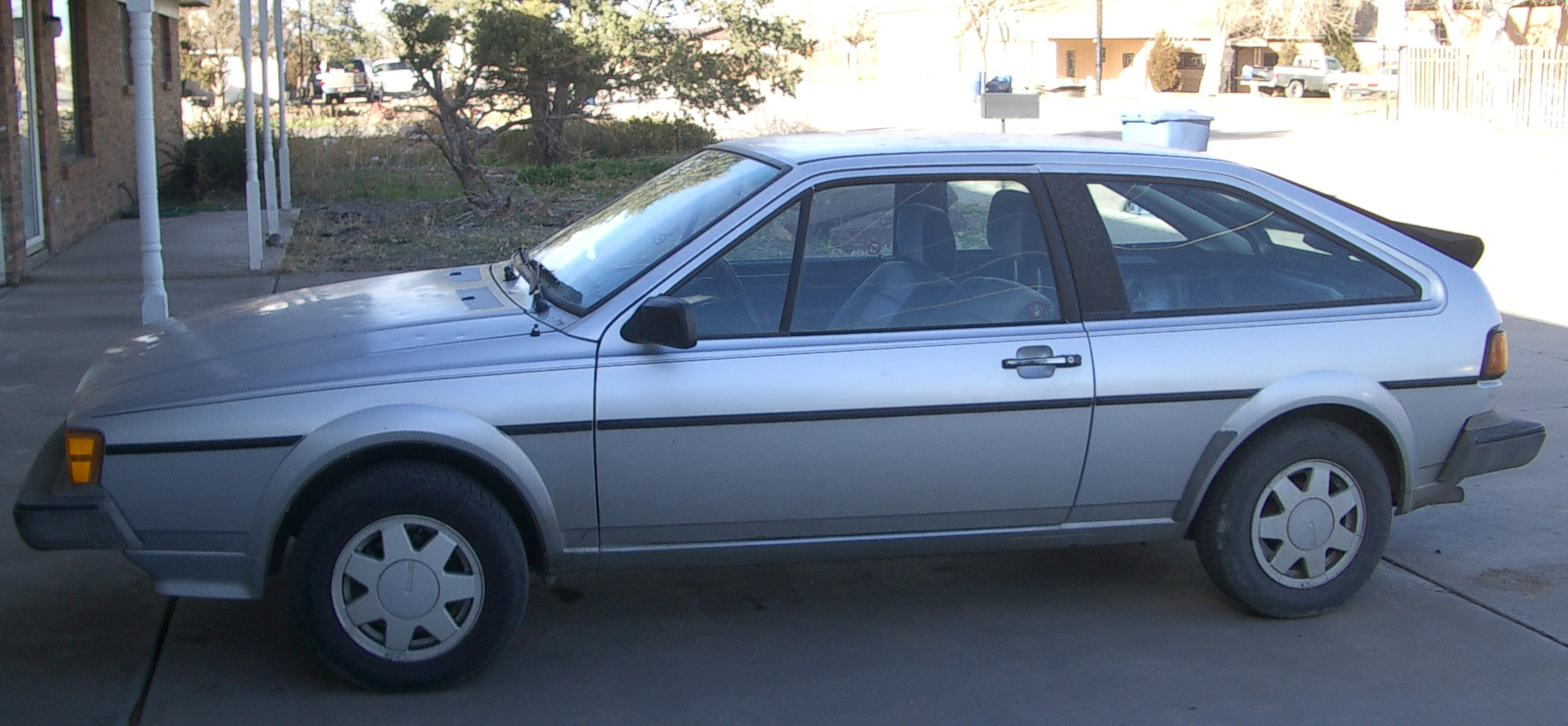 1986 Volkswagen Scirocco 8v, US-versions with large bumpers. taken in Socorro, New Mexico.